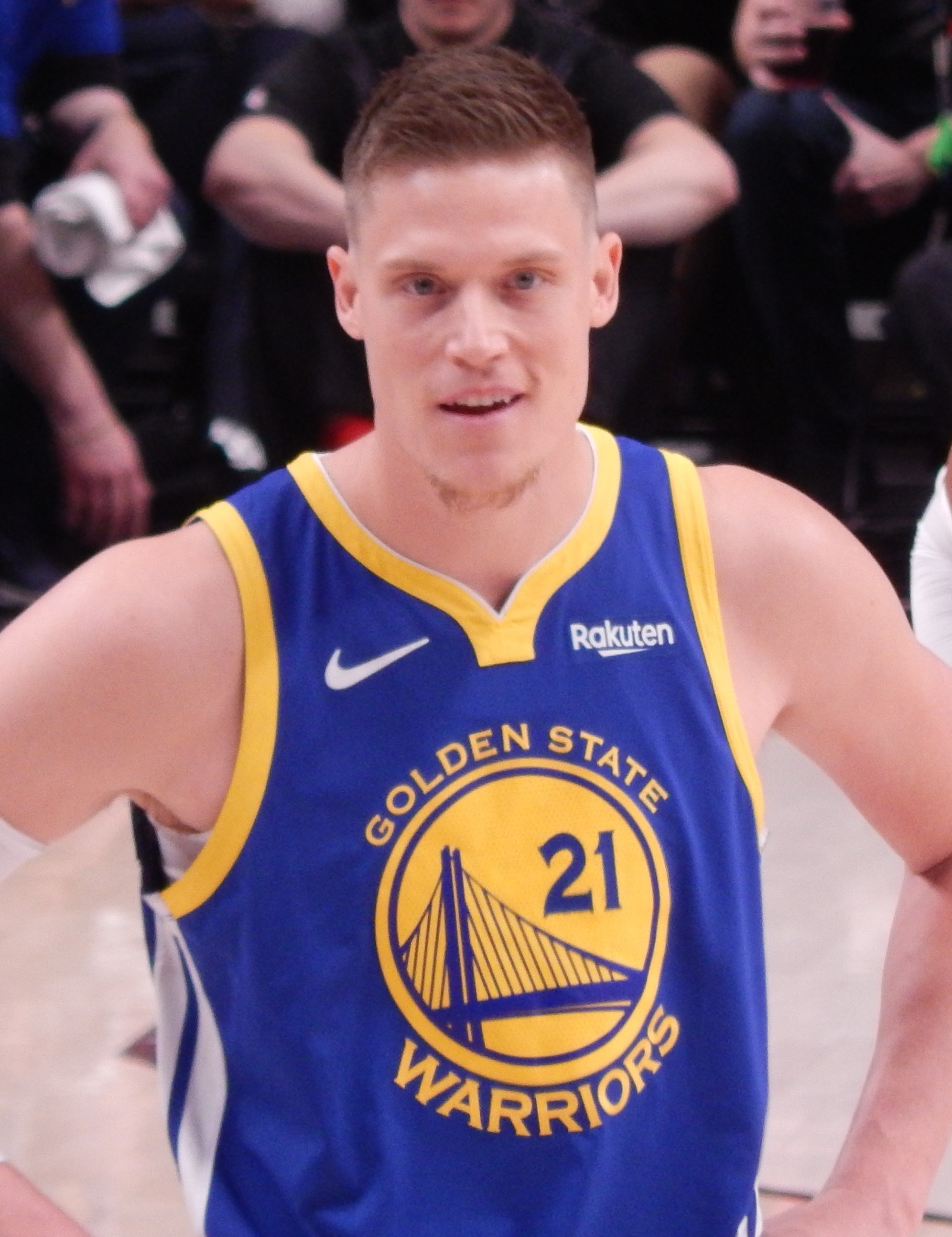 Jonas Jerebko #21 of the Golden State Warriors waits for play to resume in a game against the Portland Trail Blazers on May 18, 2019 at Moda Center in Portland, Oregon.